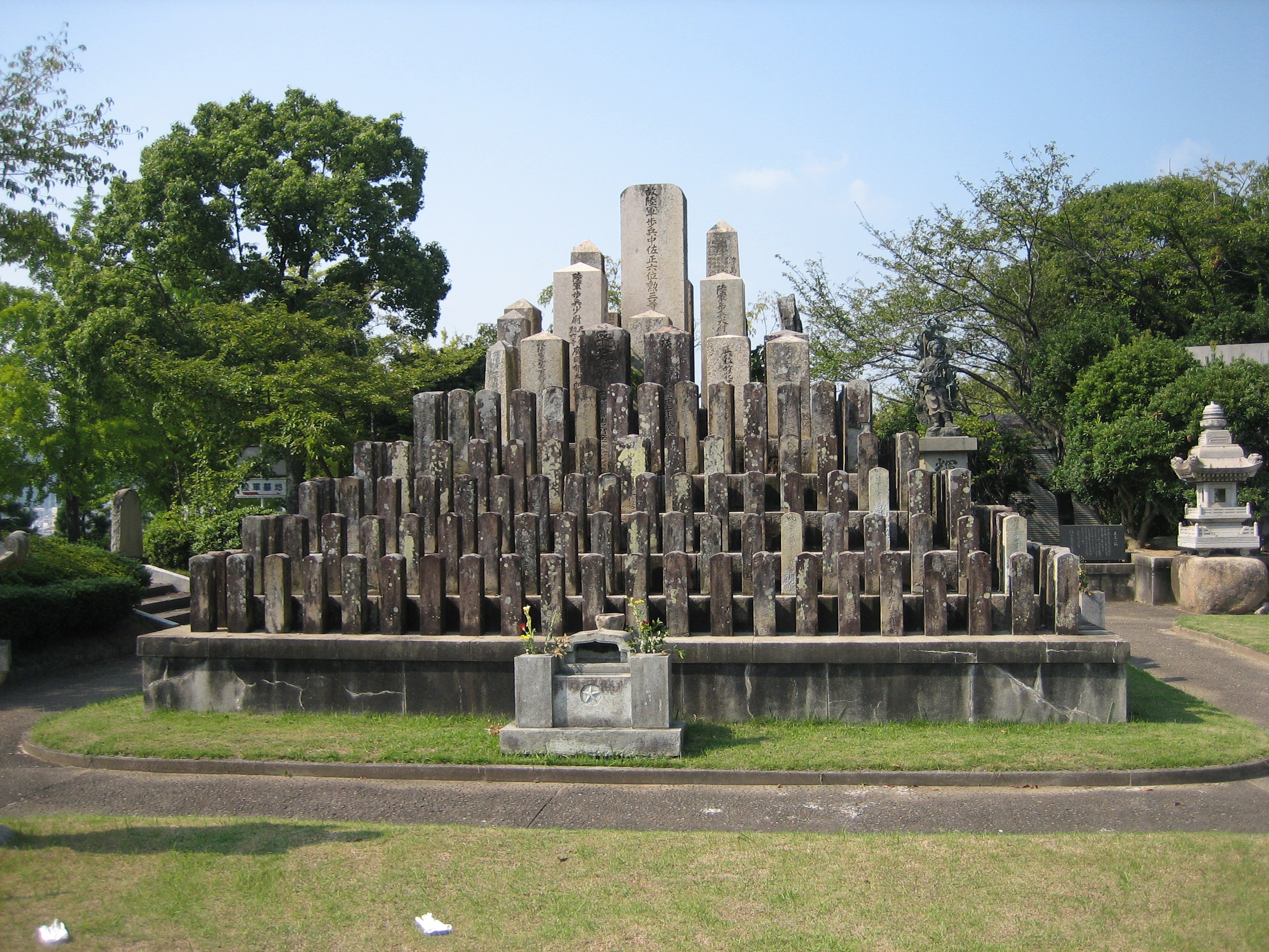 Japanese army soldier's grave.